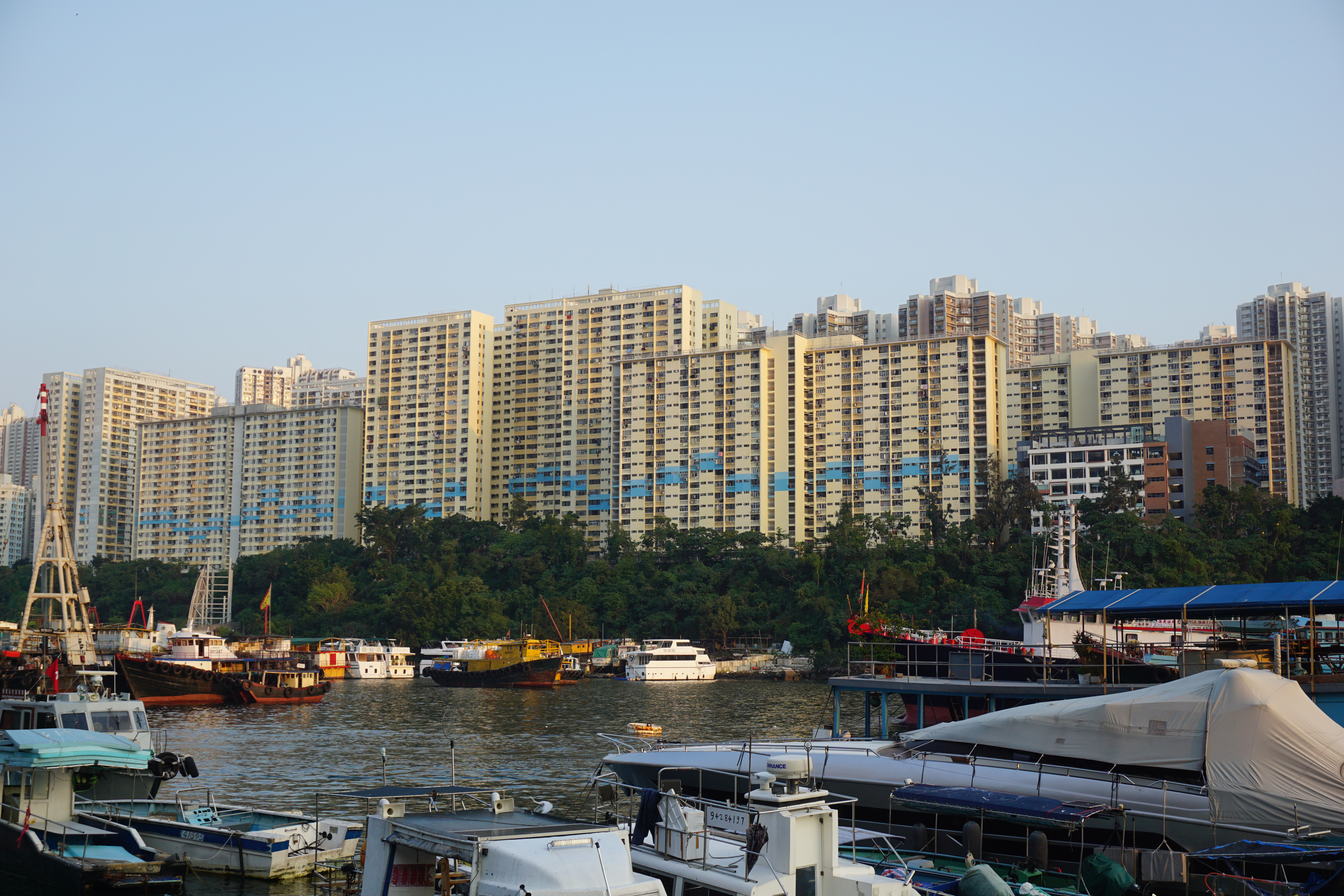 Ap Lei Chau Estate in Ap Lei Chau, Hong Kong.